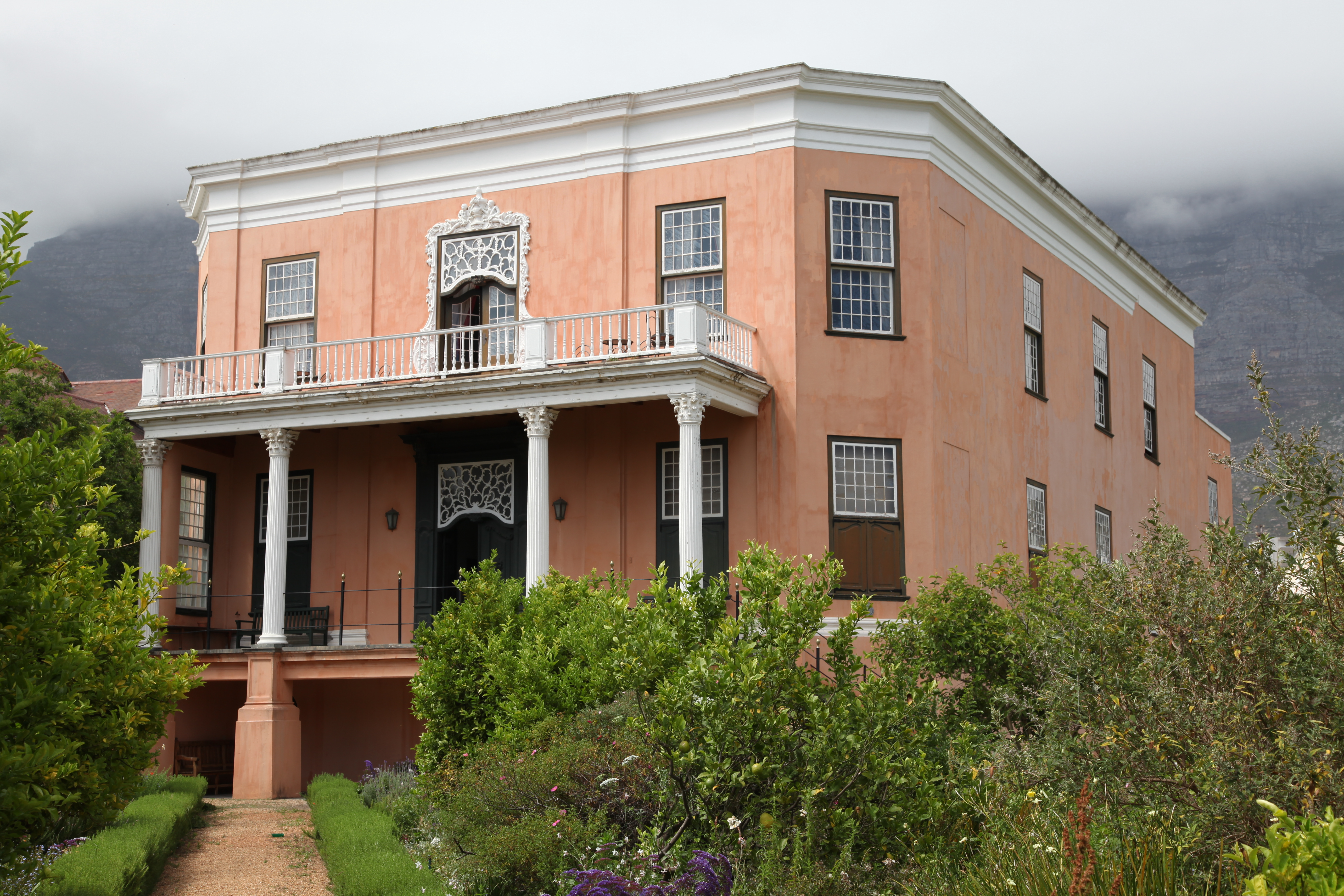 This house in Buitenkant Street, Cape Town, was built in 1777 by Independent Fiscal Willem Cornelis Boers.